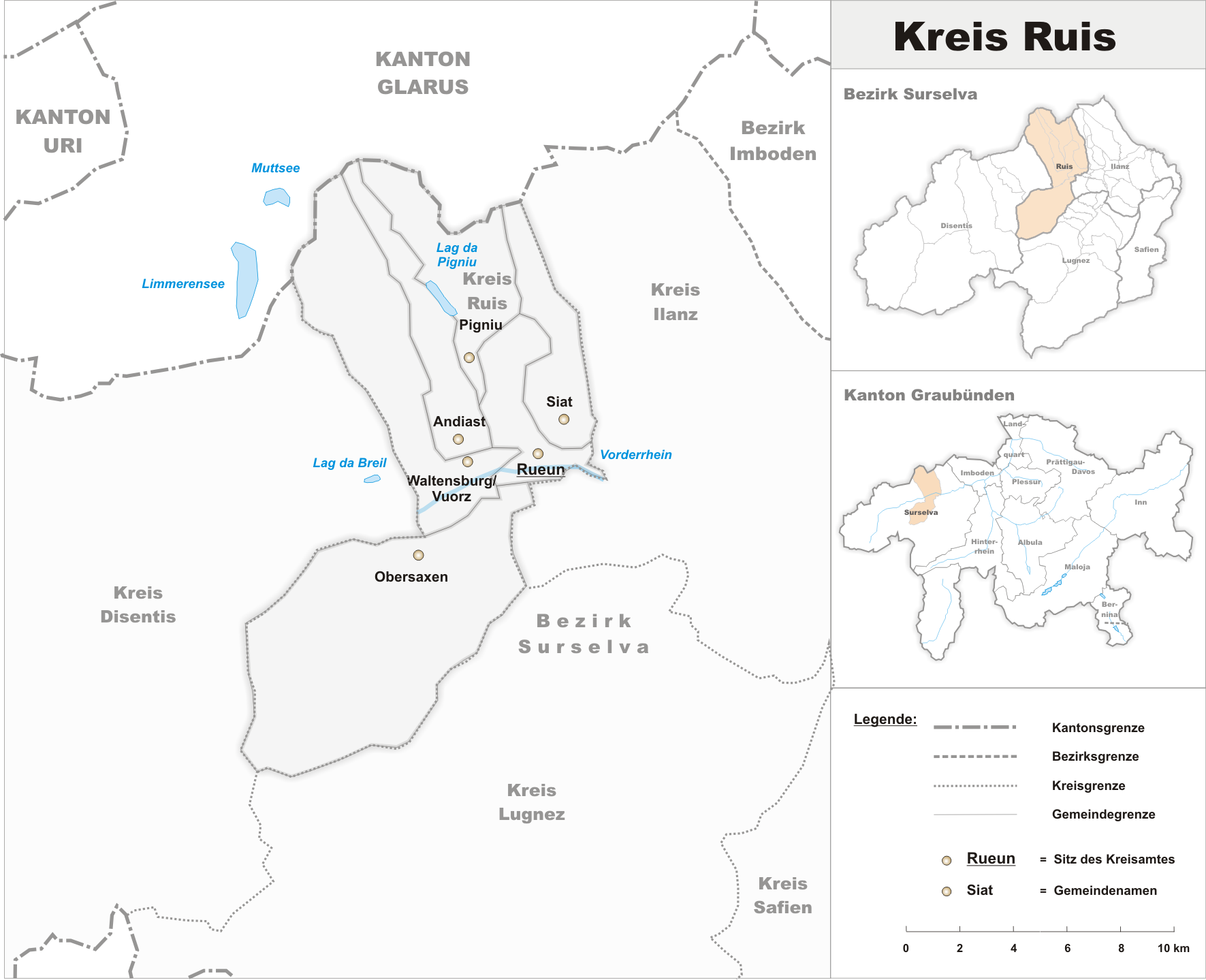 Municipalities in the circle of Ruis